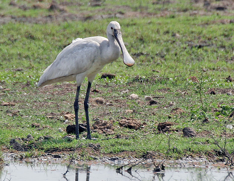 Eurasian Spoonbill Platalea leucorodia at Keoladeo National Park, Bharatpur, Rajasthan, India.